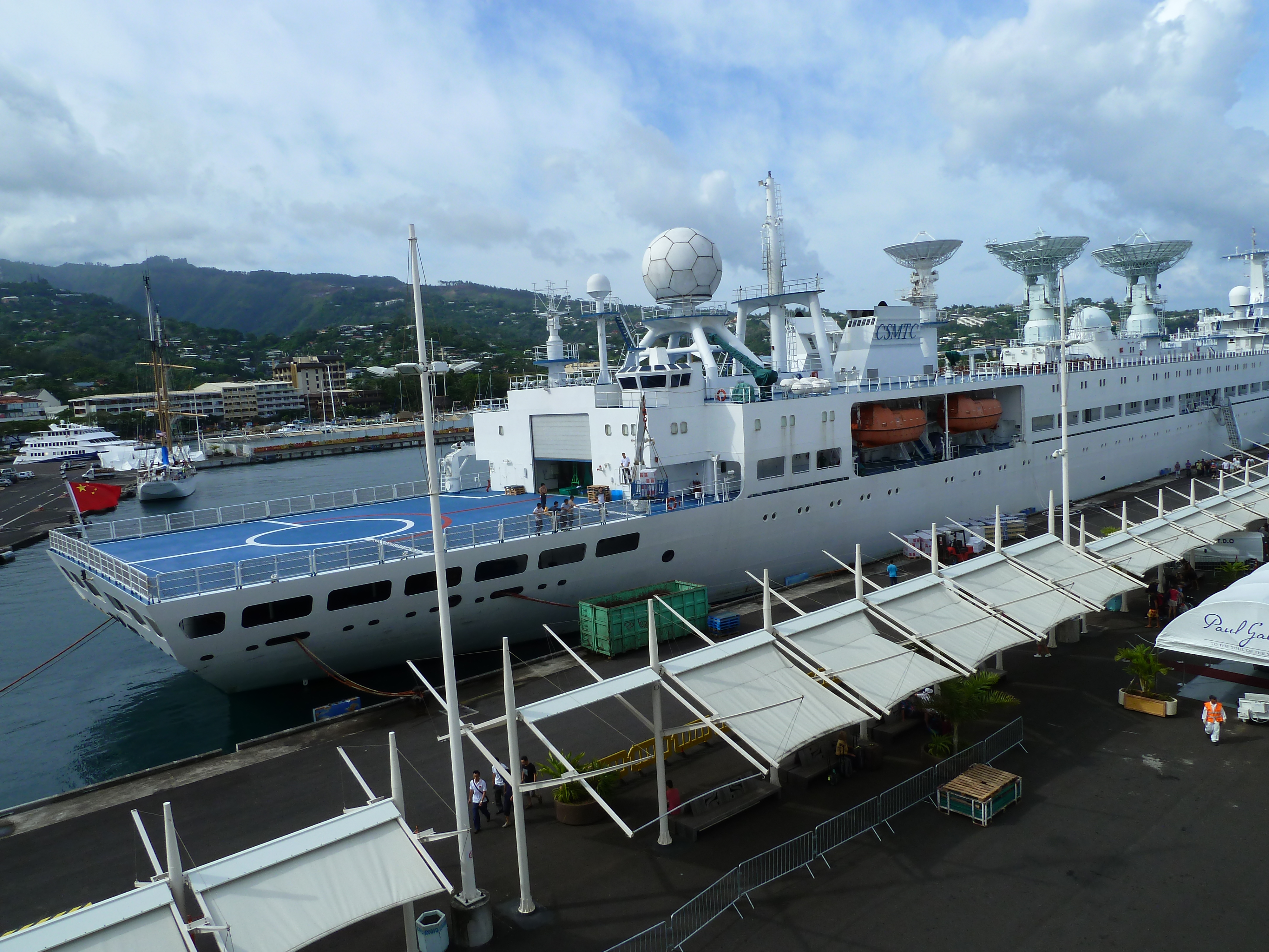 A Chinese tracking ship in port at Papeete, French Polynesia, December, 2011.